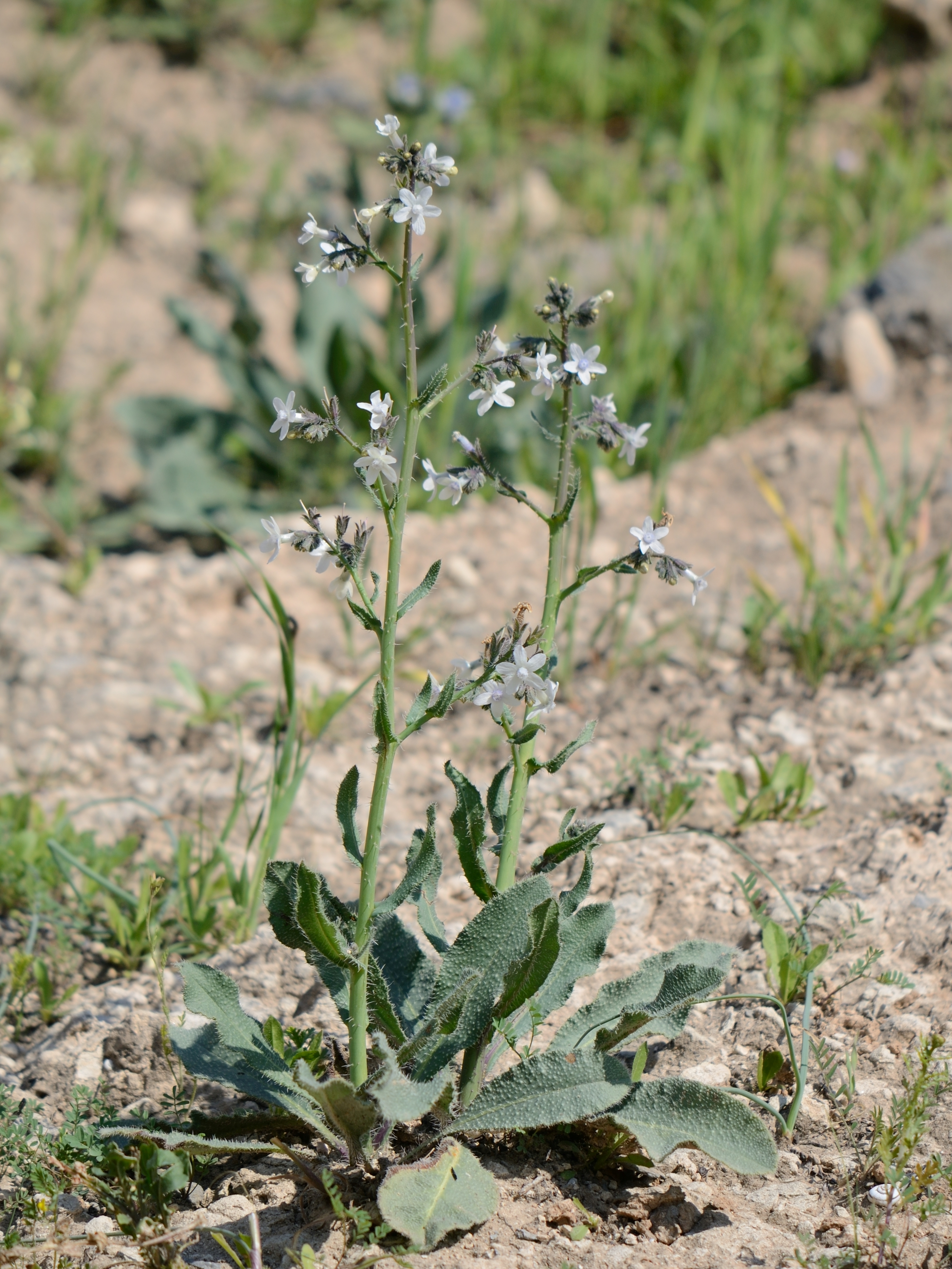 Anchusa strigosa Banks & Sol., Golan Heights, Israel/Syria, February 25, 2012.